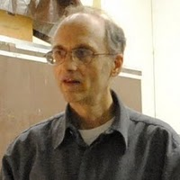 Ben Best giving a lecture at the Cryonics Institute to some high school students.